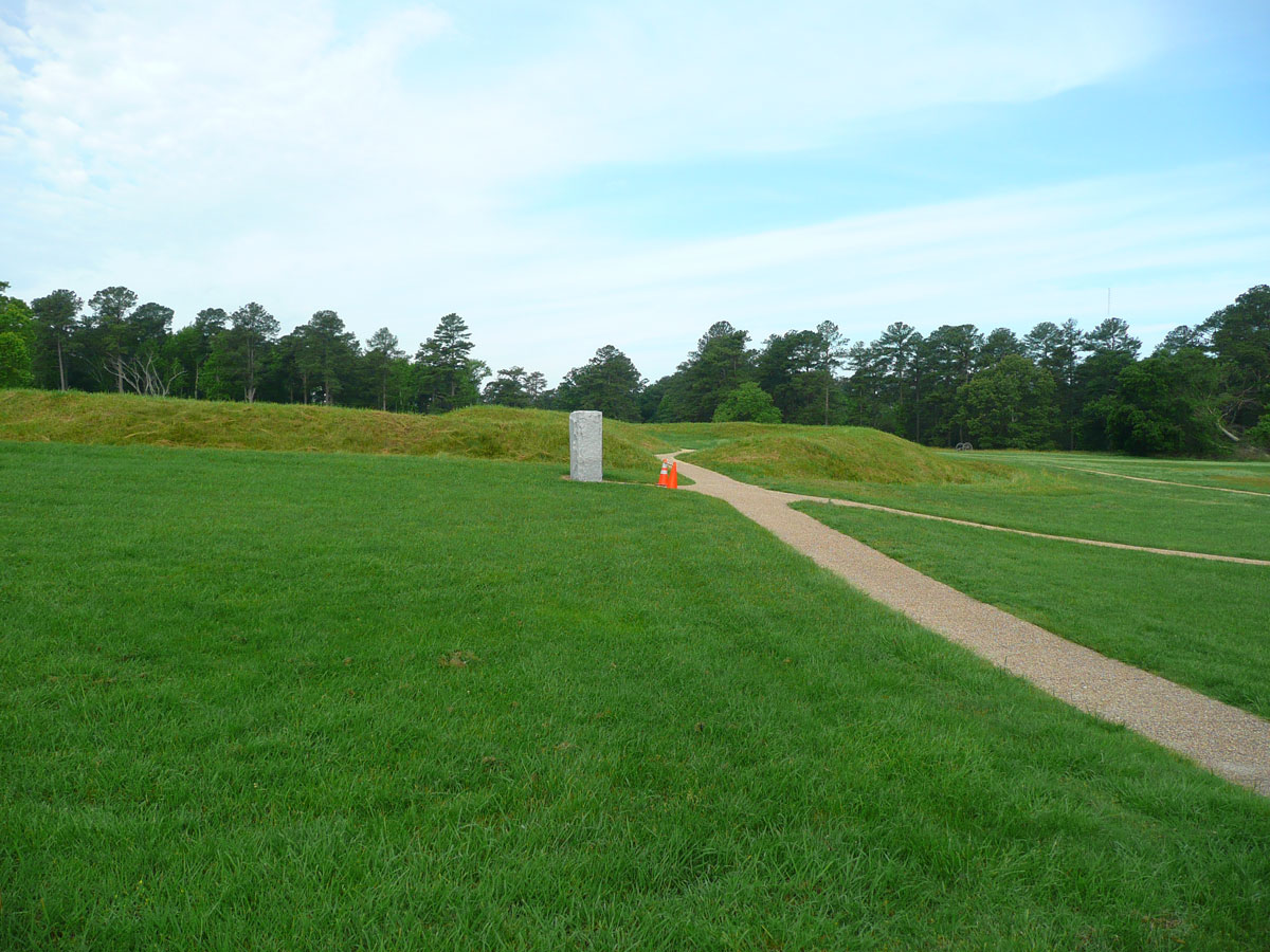 Photograph of Fort Stedman in the Petersburg National Battlefield, Virginia.